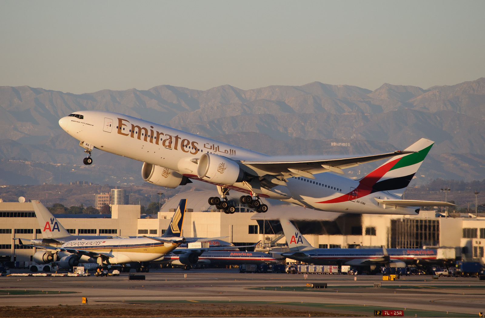 Emirates 216 takes off to start its return journey to Dubai. This is the longest flight in the sprawling, fast-growing Emirates network. In the background, another ultra-long-haul flight, the all-business Singapore 38 nonstop from Singapore, is about to arrive at its gate at Bradley Terminal. It's almost sunset, and the air is starting to cool down fast. There is some mist on top of the 777's wing. A6-EMA, Boeing 777-200LR (Emirates) 9V-SGA, Airbus A340-500 (Singapore)